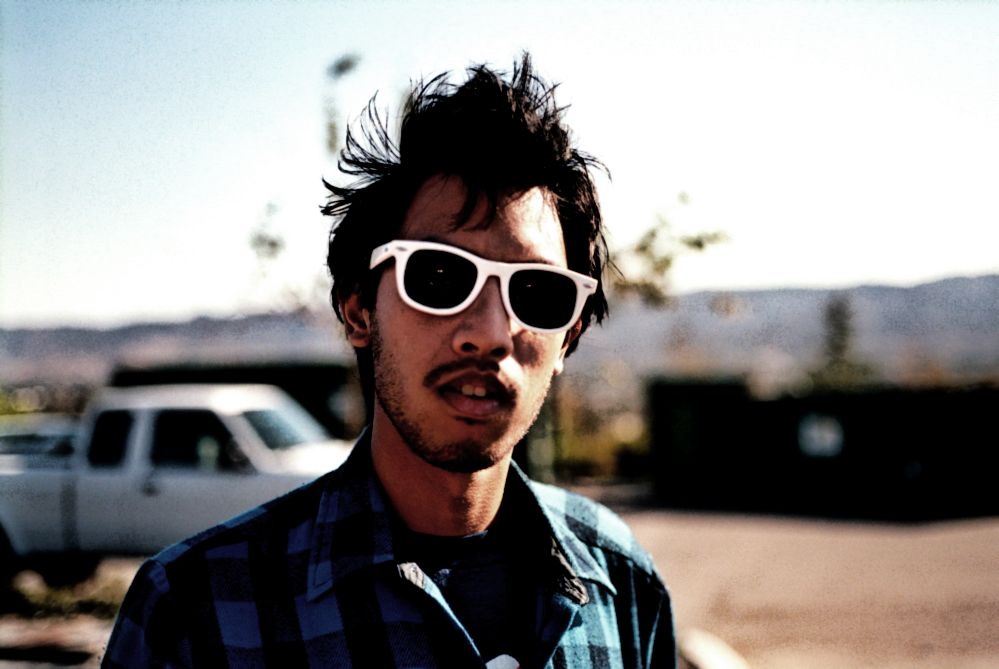 Professional Skateboarder, Jerry Hsu.